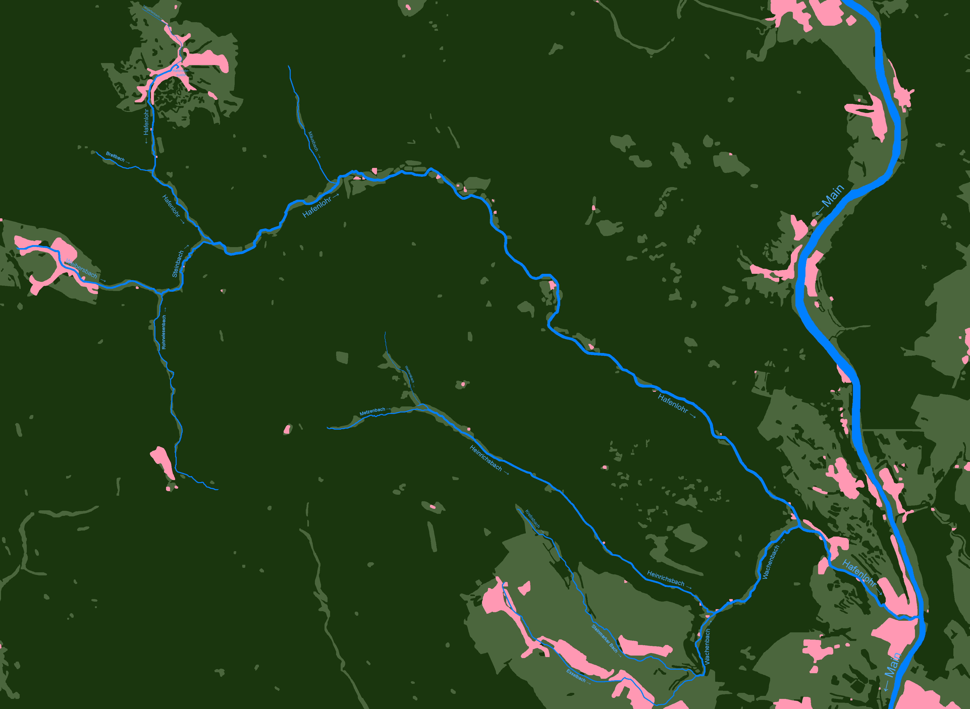 Streams in the drainage system of the Hafenlohr: the file shows stream in the drainage system of Hafenlohr which are listed in the "List of streams in the drainage system of Hafenlohr" in the German Wikipedia. For questions and suggestions please contact the author. Grassland, Meadow Settlement area Forest Body of water